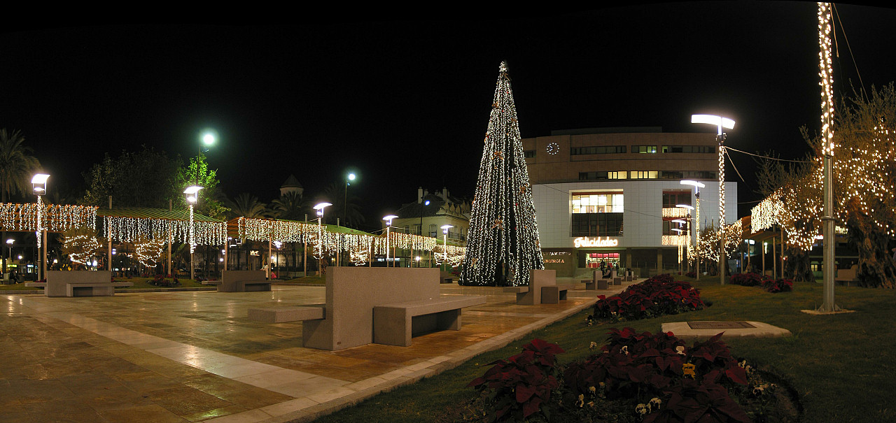 Panoramic view of the Fuengirola's town hall